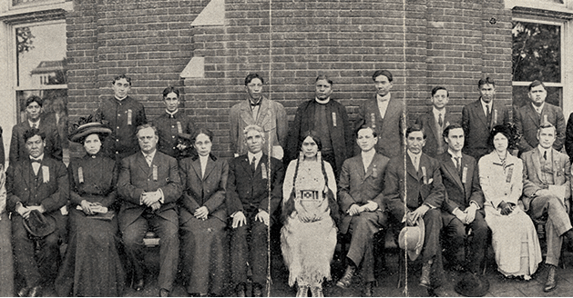 The Society of American Indians, Ohio State University, 1917 Other information No.